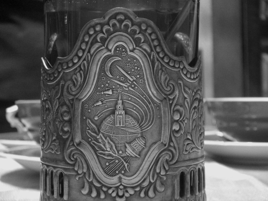 podstakannik of 1950-s features Sputnik-1 and some more fictional sputniks, see